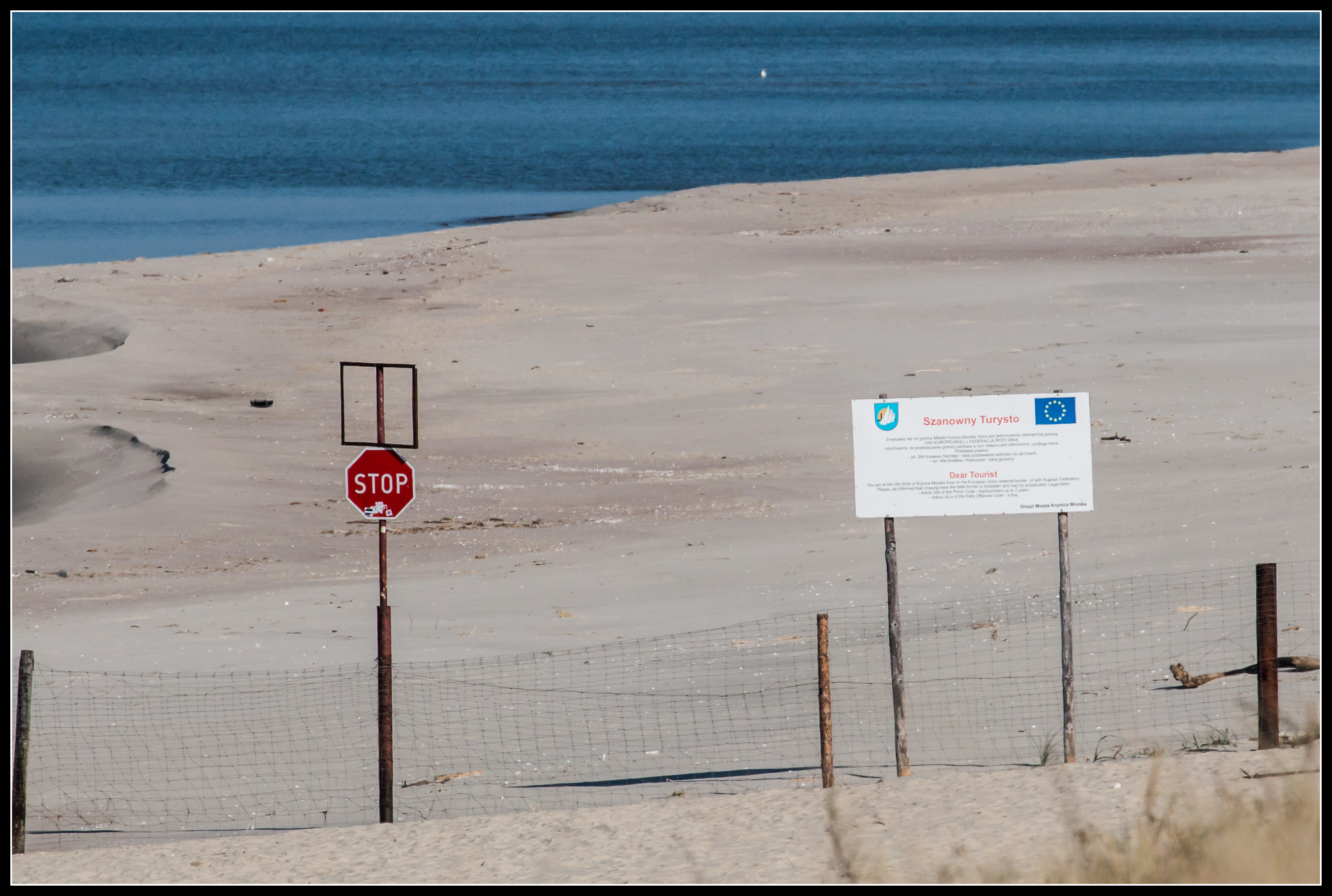 Border of the Russian Federation (Kaliningrad Oblast) and Poland